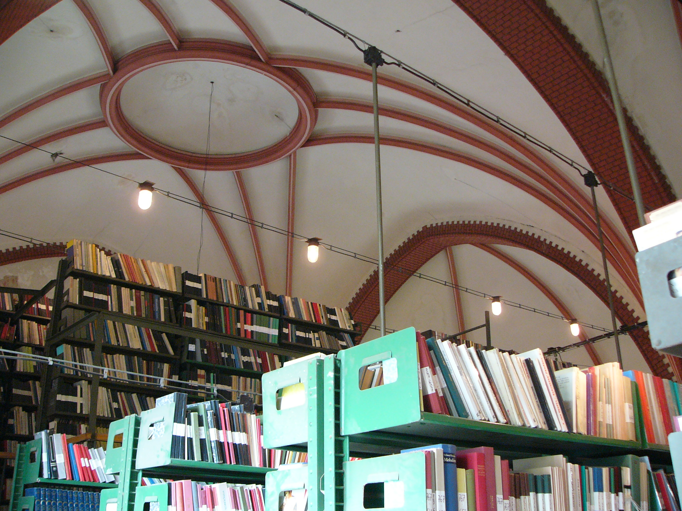 Red church in Olomouc (Czech Republic).